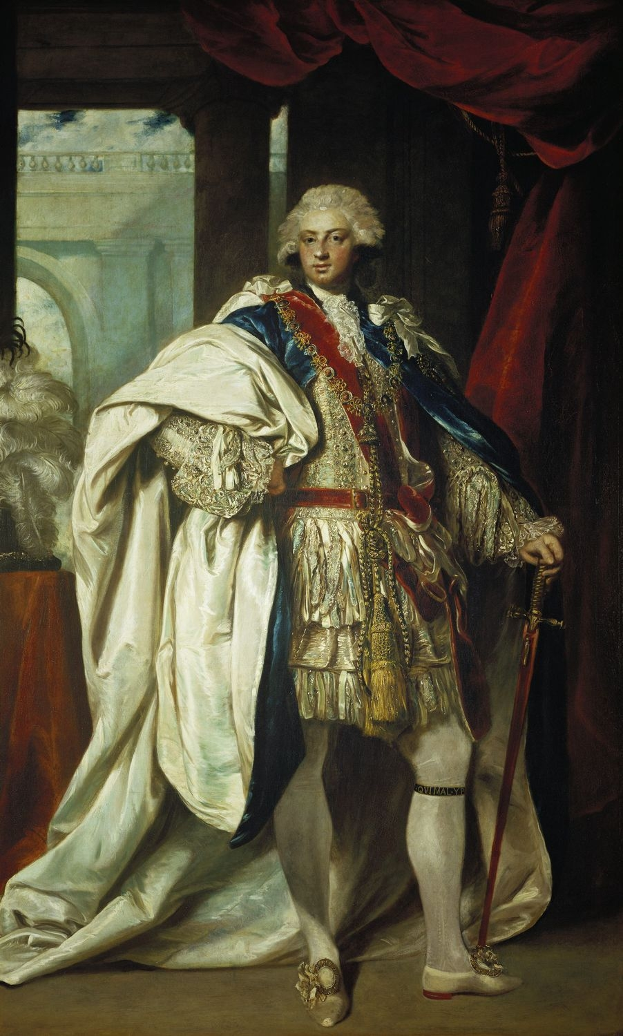 Portrait of Prince Frederick (1763-1827)